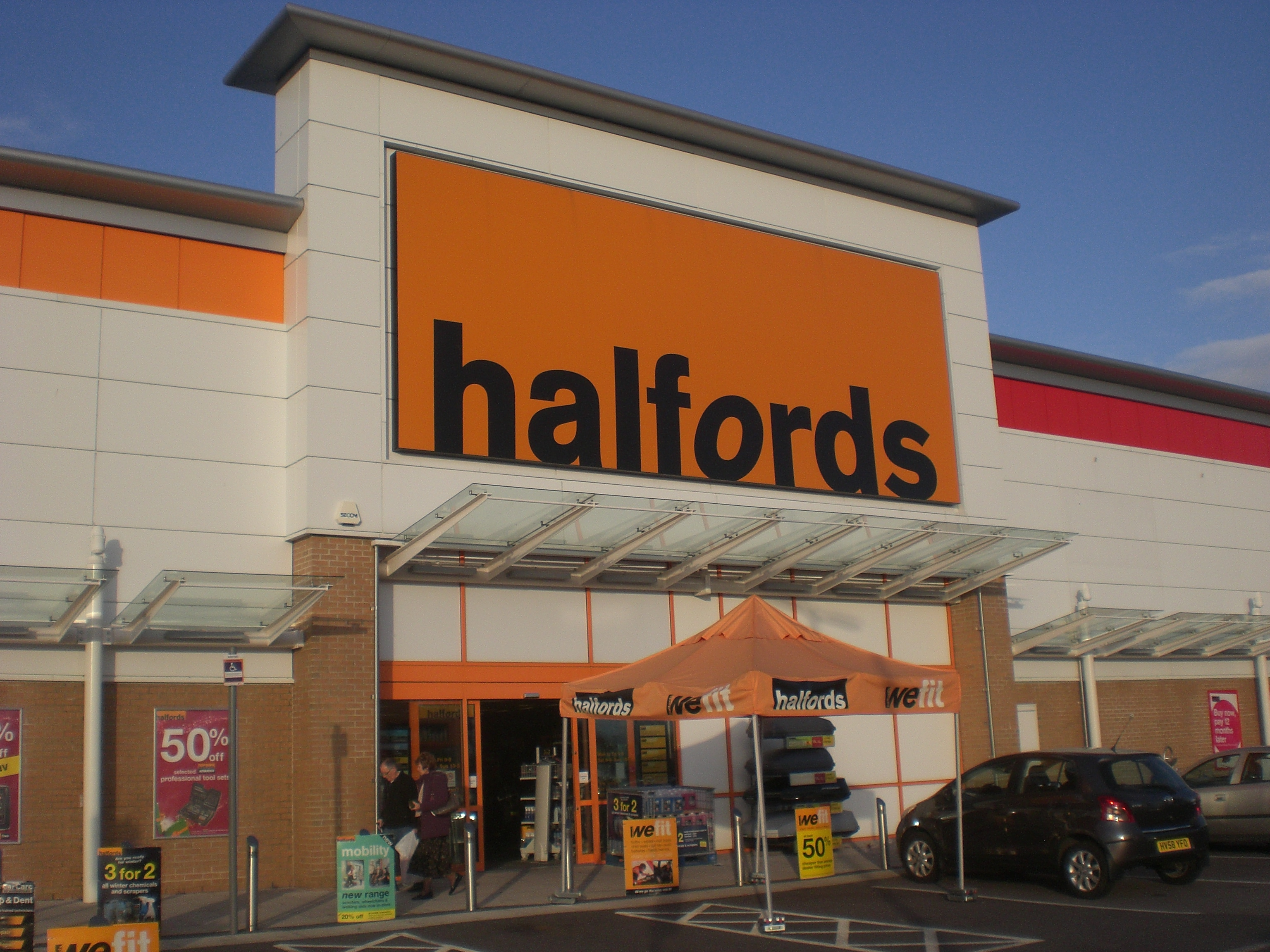 Halfords at the Ocean Park retail park in Portsmouth.